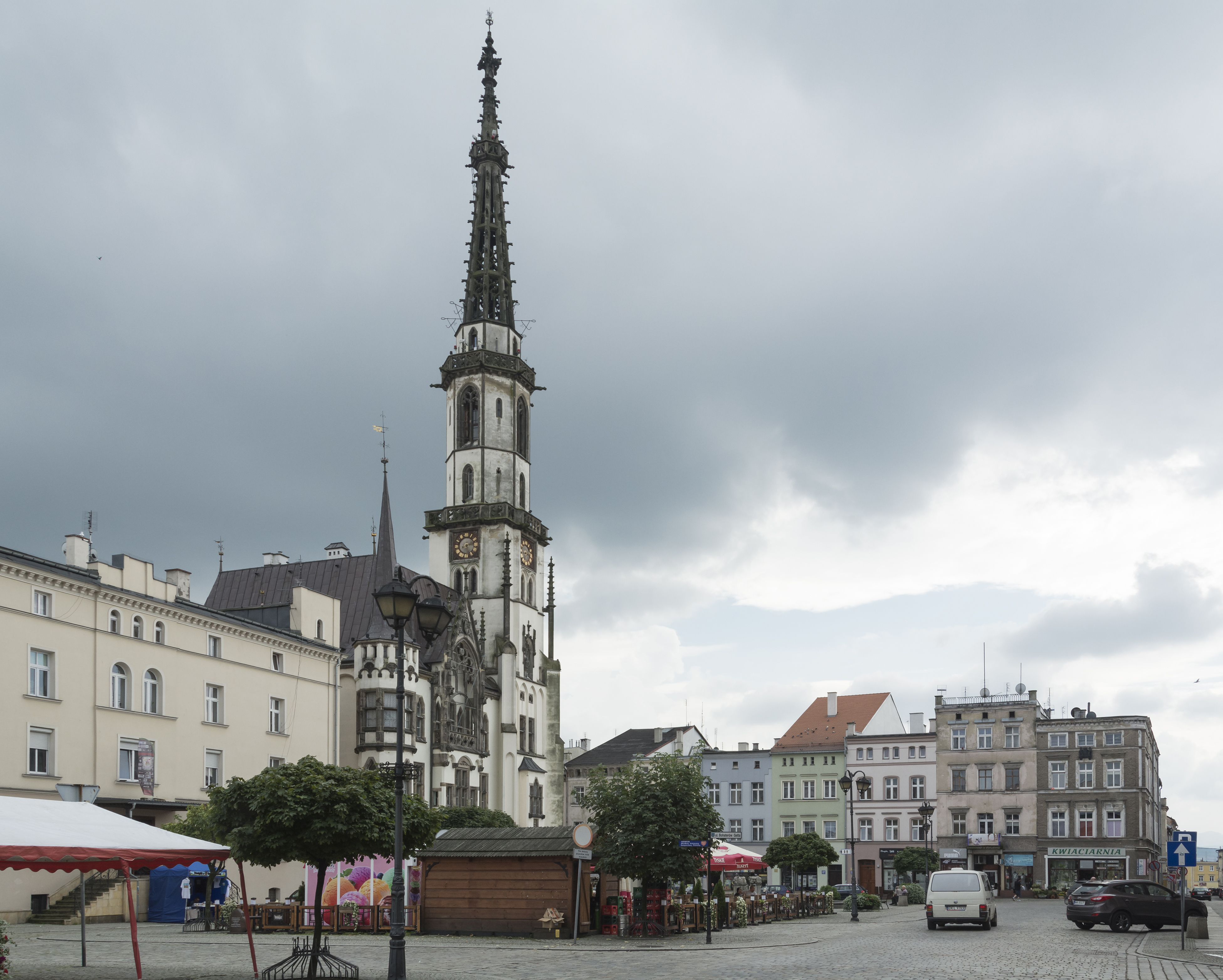 Market Square in Ząbkowice Śląskie